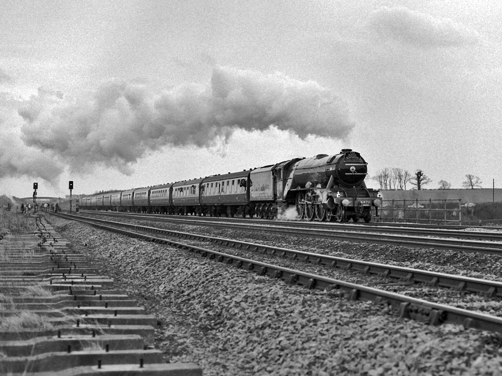 London and North Eastern Railway rebuilt Gresley 4-6-2 'A3' class locomotive number 4472 FLYING SCOTSMAN of Peterborough (New England) MPD at Swayfield Lodge, South of Corby Glen, on the Down Slow line with the 09:20 (Additional) London Kings Cross to York charter (1G60) which it will work between Peterborough and York. Sunday 27th February 1983